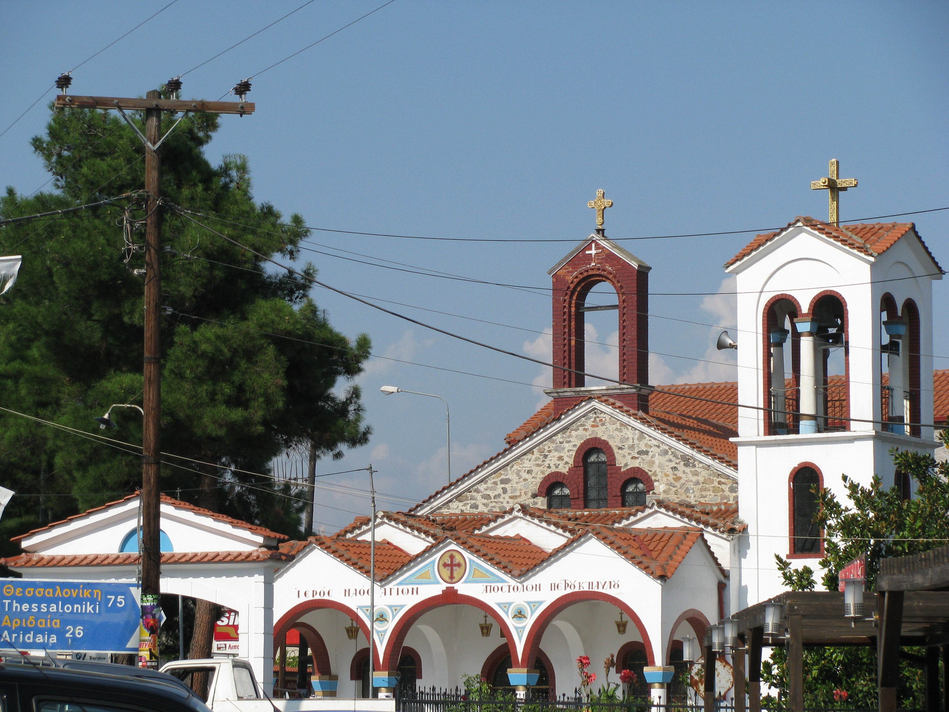 Village of Mavrovouni/Trebolec, Aegean Macedonia, Greece